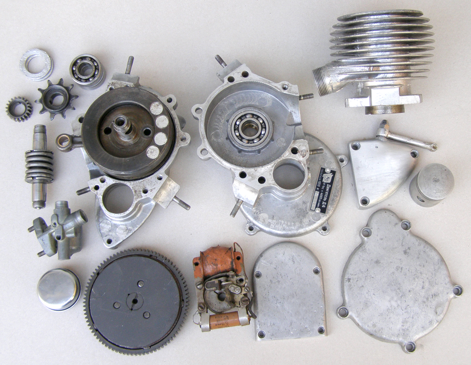 USSR bicke engine D-4, 1957